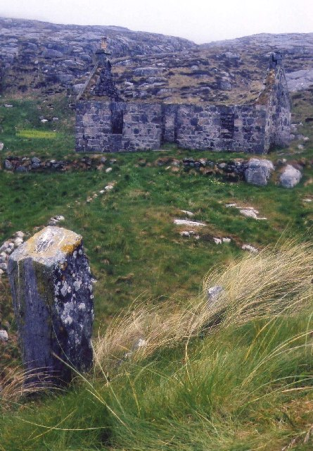 Ruined Building on Pabbay, Outer Hebrides. This photo shows a ruined building on Pabbay, an island near Mingulay in the Outer Hebrides. Pabbay was last inhabited in 1911. The building was evidently constructed using the local stone, as it is quite well camouflaged against the bare rocks behind. In the lower left, close to the photographer, is a standing stone, probably the remains of an ancient Celtic cross.